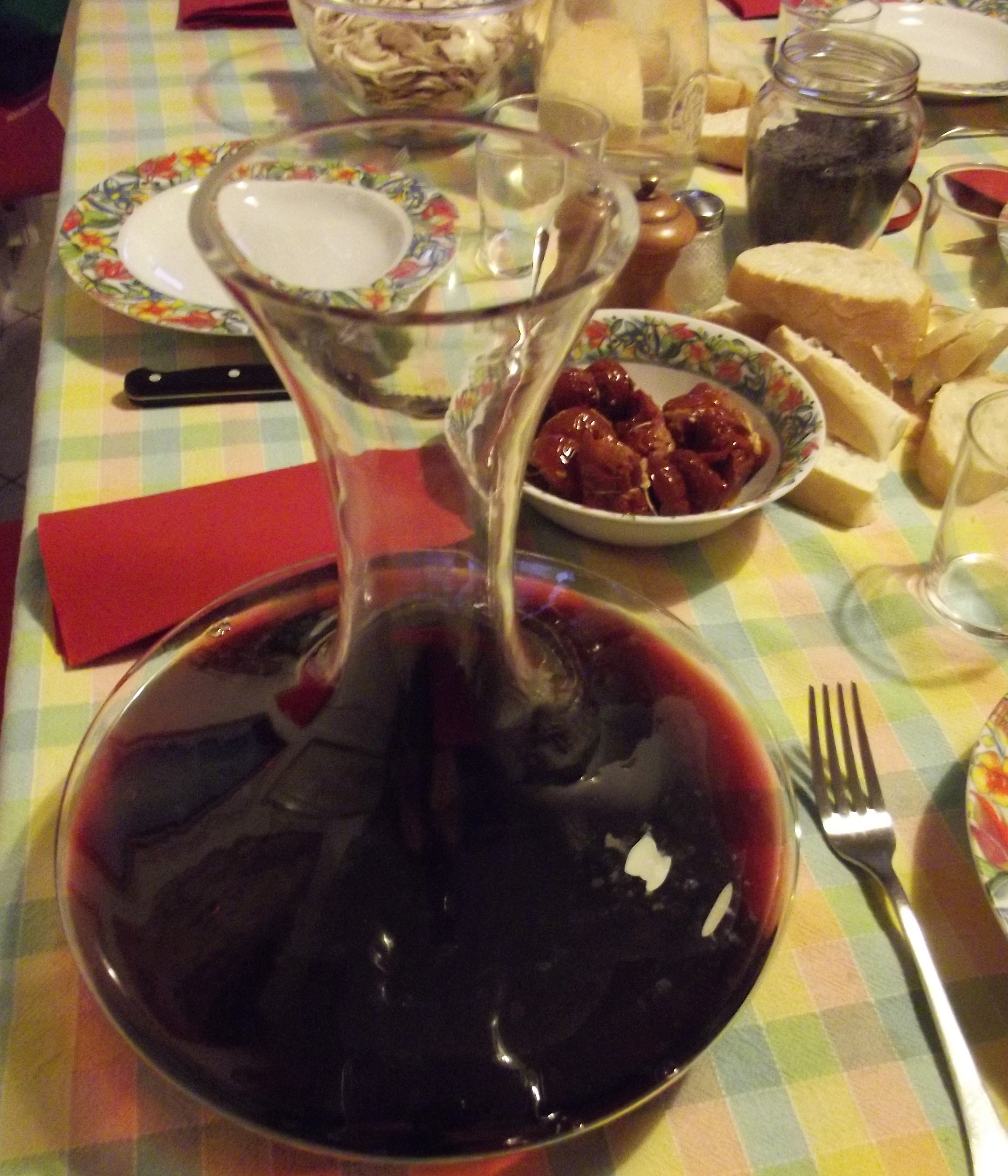 Bramaterra year 2007 in a decanter